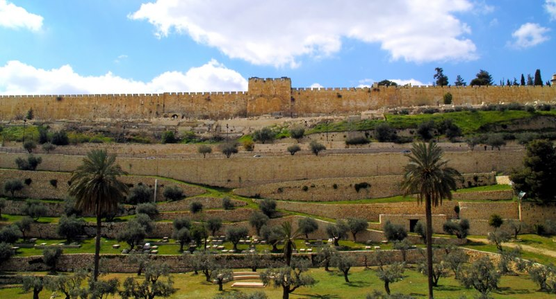 The Golden Gate, Jerusalem